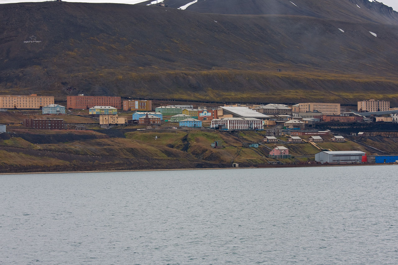 Barentsburg at Svalbard